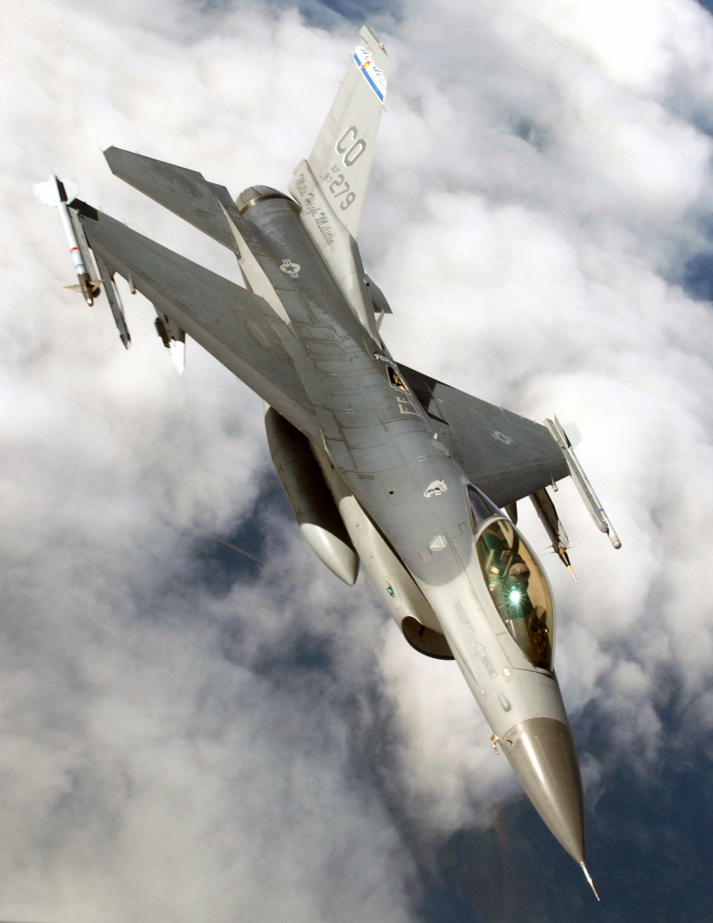 A US Air Force (USAF) F-16C Fighting Falcon, 120th Fighter Squadron (FS), 140th Fighter Wing (FW), Colorado Air National Guard (COANG), disengages from a refueling boom (fuel port is still open) as it returns to Cold Wing Canada during the second Tiger Meet of the Americas. The Falcon is carrying an AIM-9 Sidewinder missile (left) and Air Combat Maneuvering Instrumentation (ACMI) pod under the wing and an Acceleration Monitor Assembly (AMA) pod on the wing tip.